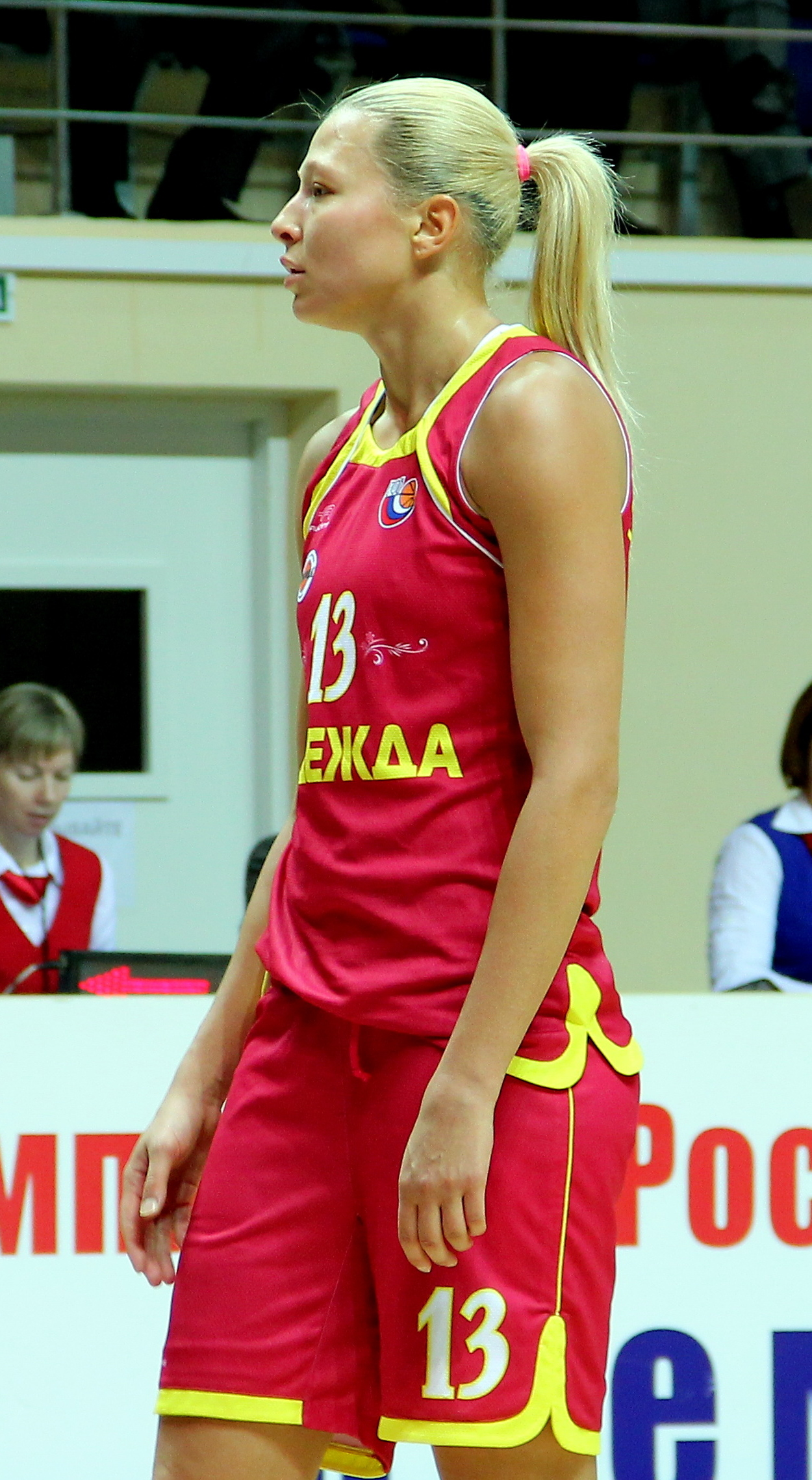 Russia, Vologda, Liudmila Sapova in game «Vologda-Chevakata» vs «Nadezhda» (Orenburg)